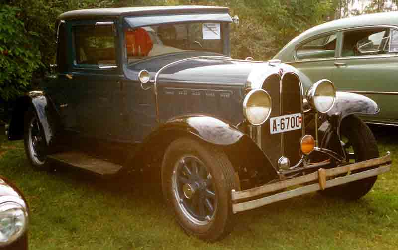 Oakland Model 212 All-American Coupé 1929